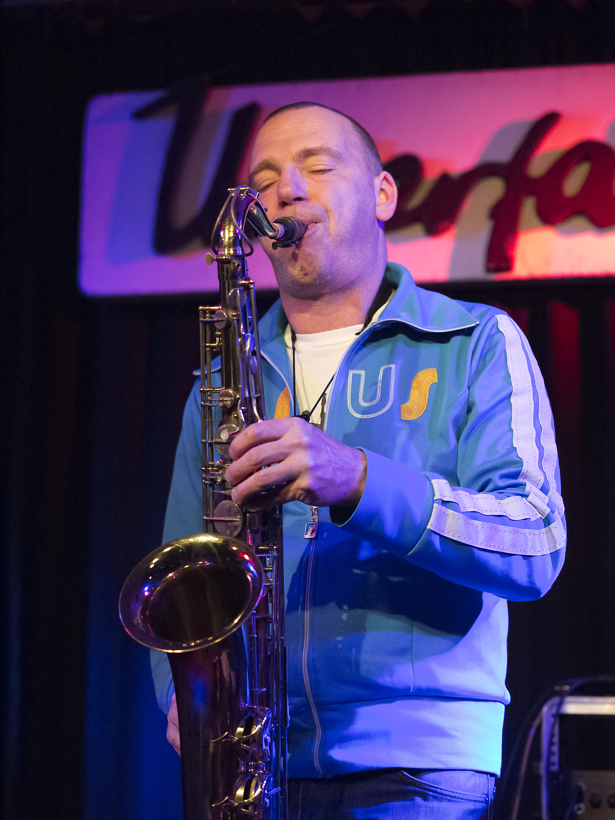 Maarten Ornstein, Jazz saxophonist; Picture taken in Jazz Club Unterfahrt, Munich/Bavaria